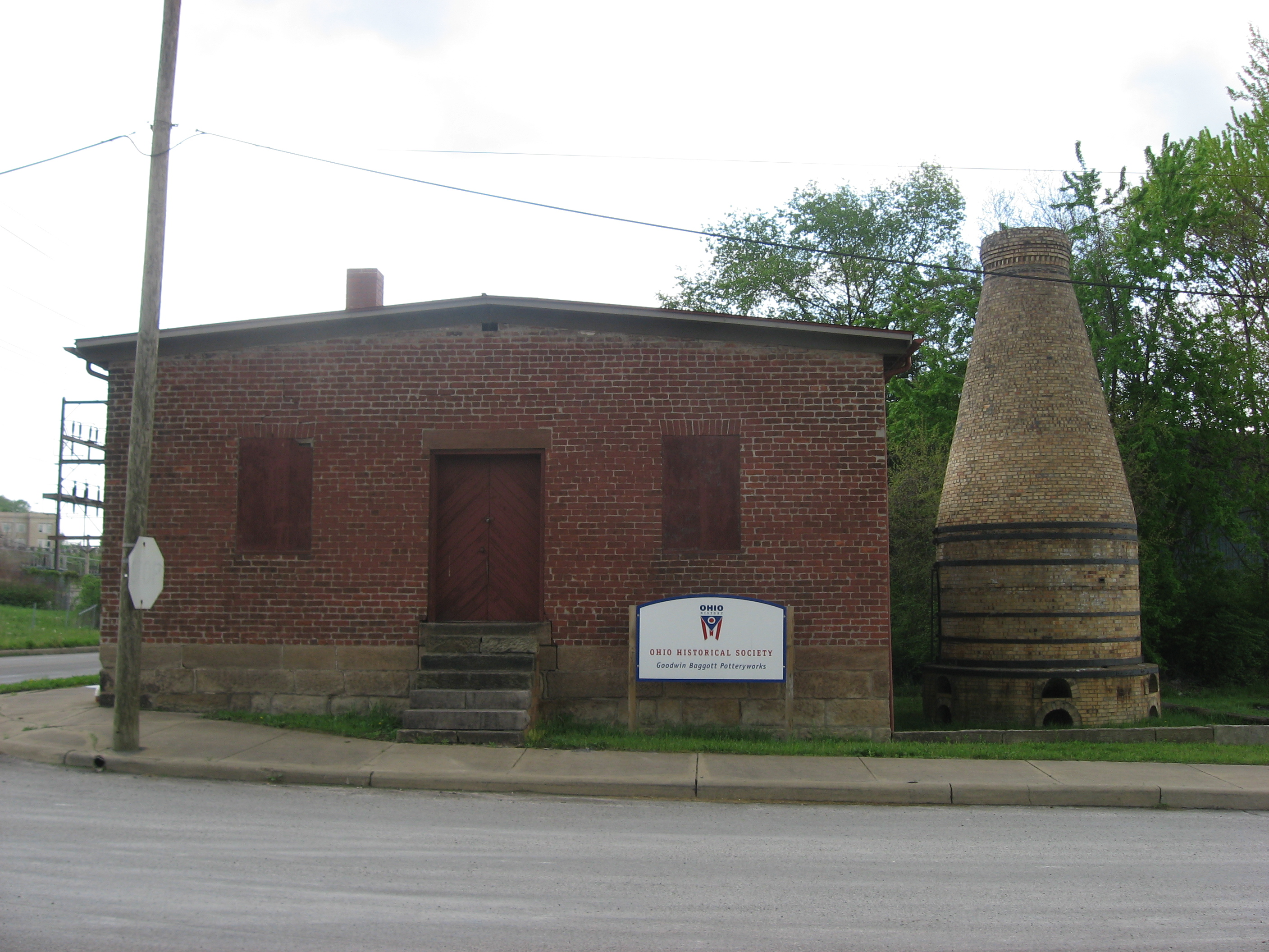 The East Liverpool Pottery building, located on the southeastern corner of the intersection of Second and Market Streets in lower East Liverpool, Ohio, United States. Built in 1844, the pottery is listed on the National Register of Historic Places.